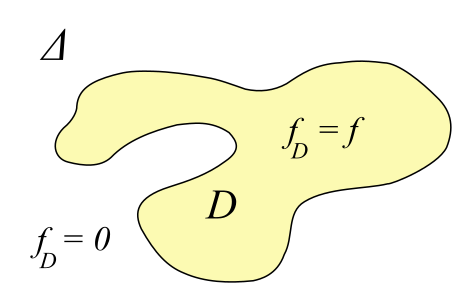 Arbitrary domain